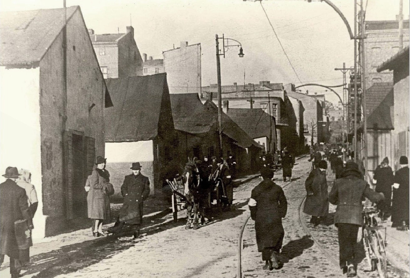 Będzin Ghetto in World War II, Będzin in German occupied Poland, Modrzejowska Street area. In this photograph, Polish Jews within the Ghetto perimeter. From the collections of the Będzin Museum, 1942. Further info at Będzin Ghetto.